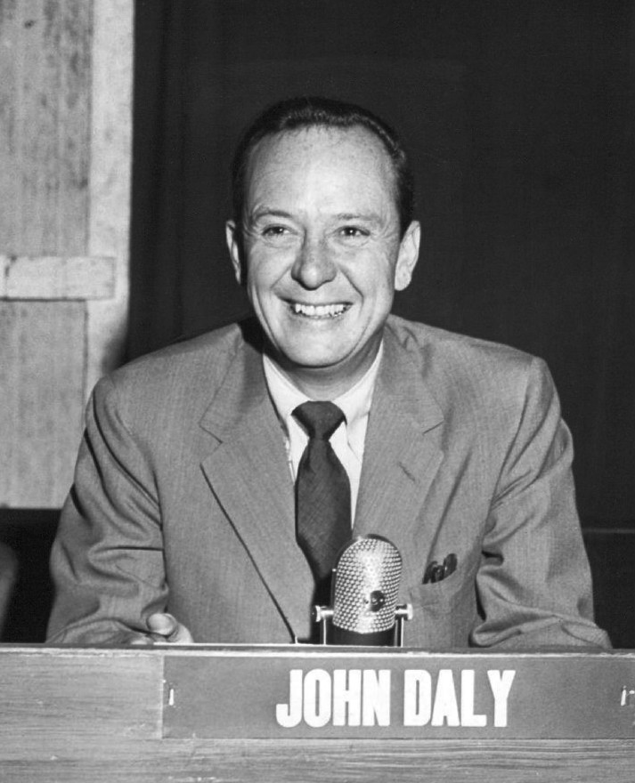 Photo of John Daly from the television panel show It's News to Me.